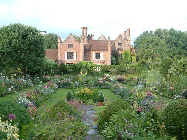 Garden of Chenies Manor House, Buckinghamshire.